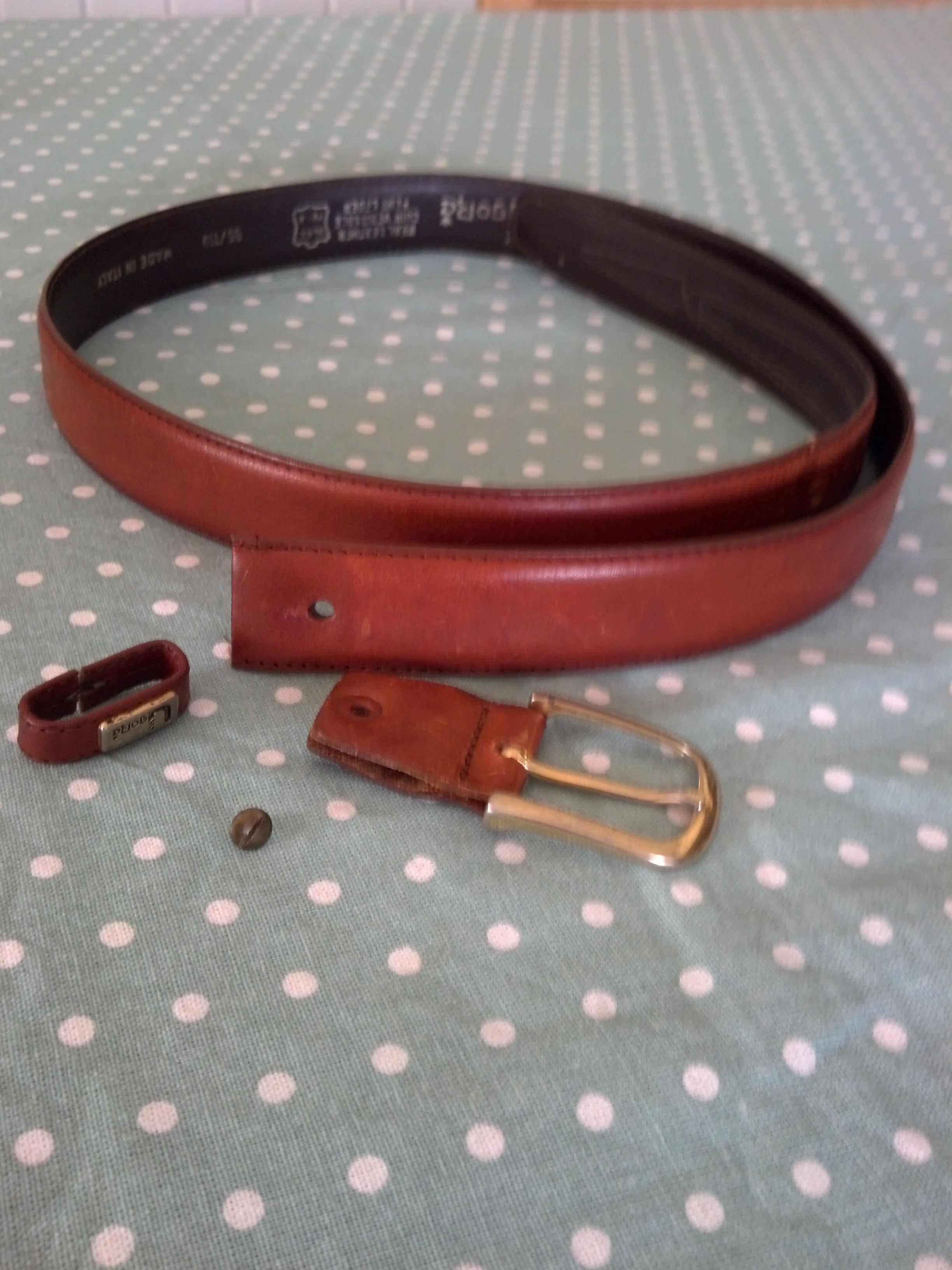 A belt which went apart